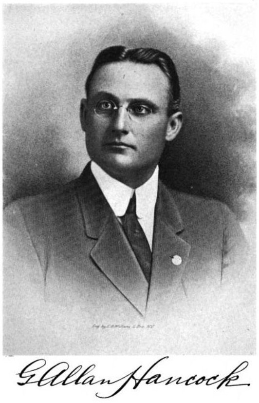 Artist's portrait of George Allan Hancock, as it appeared in the 1921 book Los Angeles from the Mountains to the Sea.